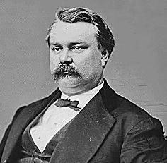 Henry D. McHenry, US Representative from Kentucky